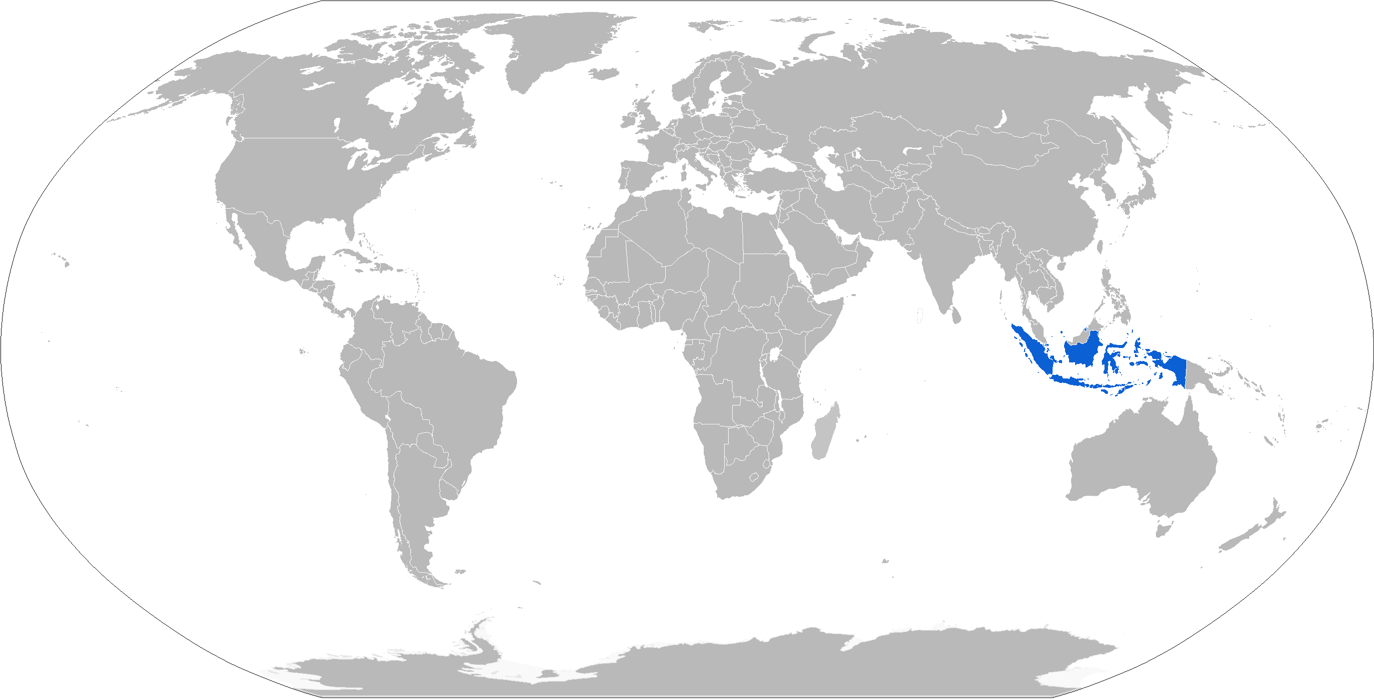 Map of Anoa operators in blue